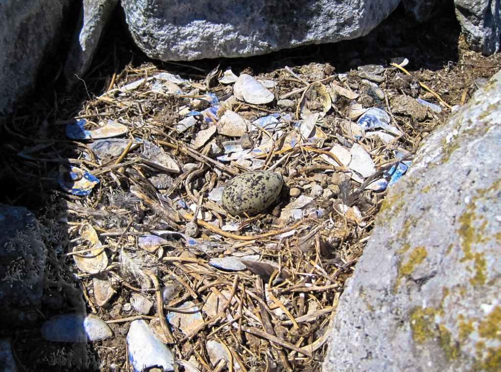 African Black Oystercatcher nest